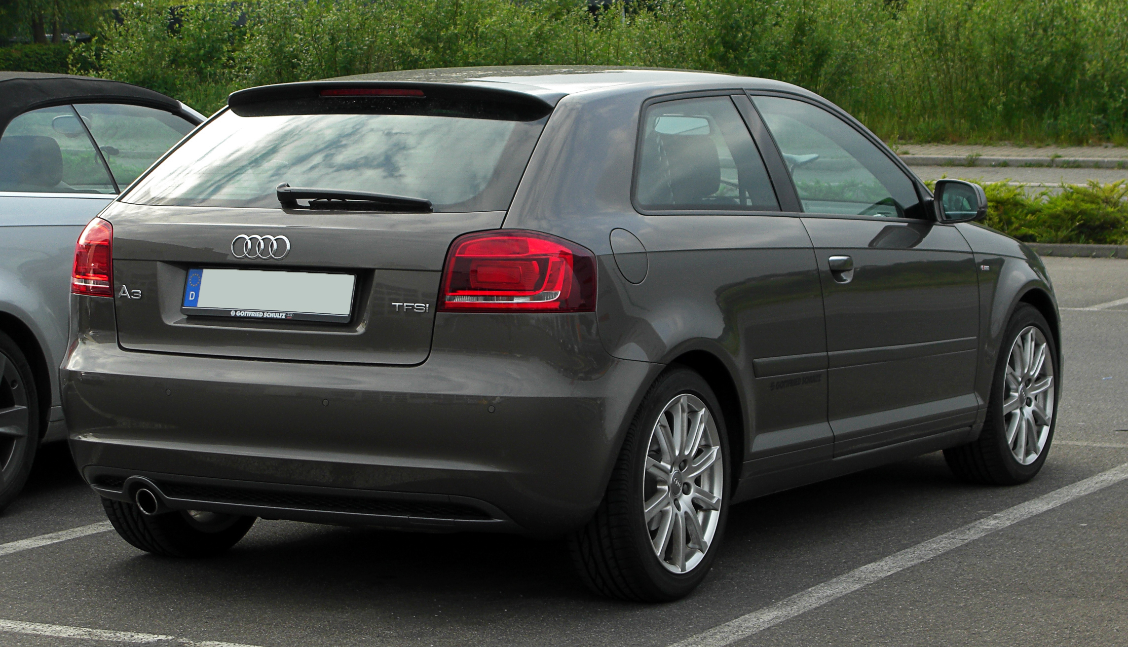 Audi A3 1.2 TFSI Ambition S-line (8P, 3. Facelift)